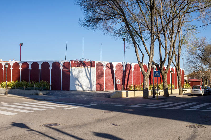 Plaza de toros.